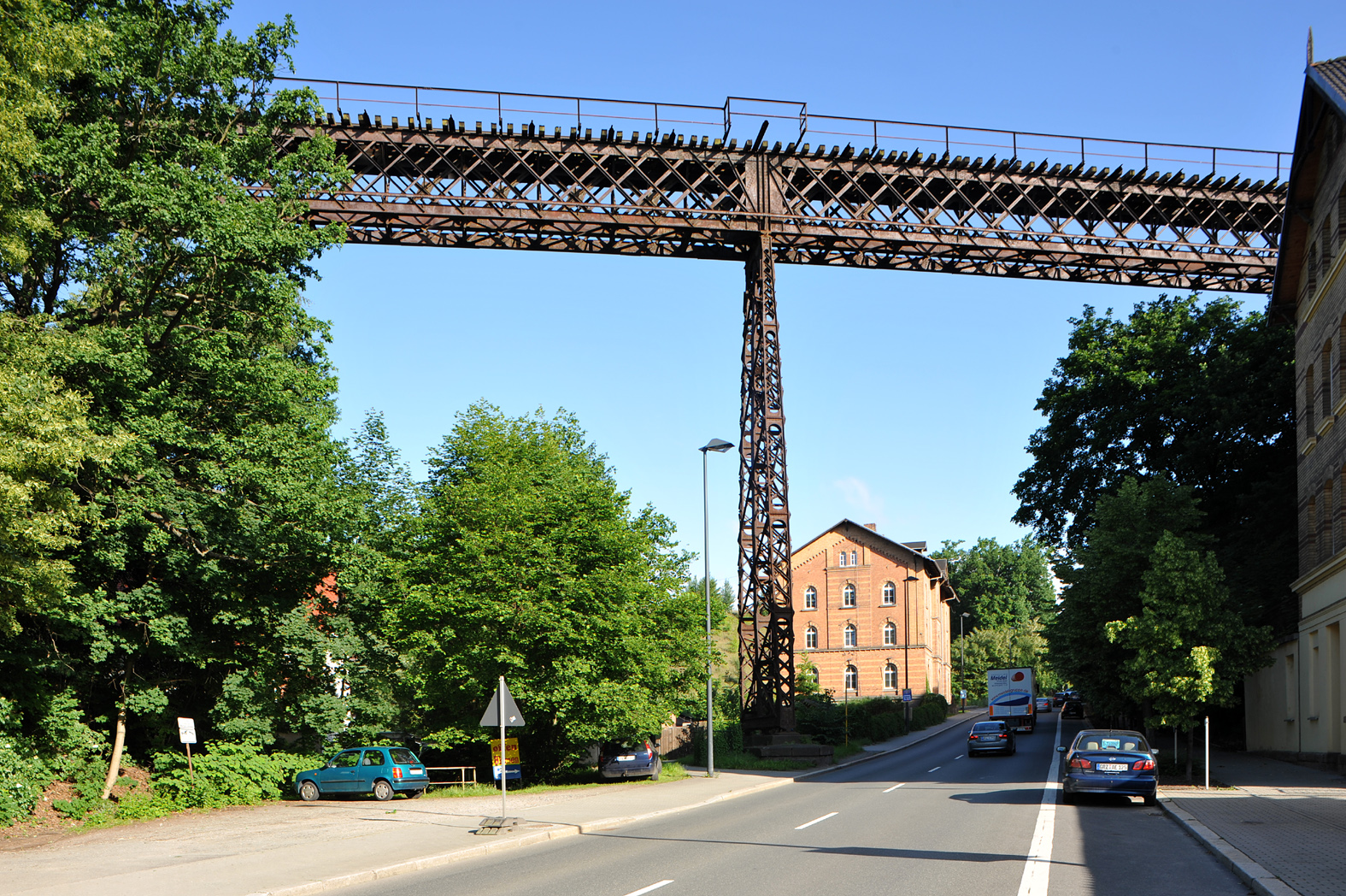 Oschuetztal bridge in Weida, inoperative; the new line runs 230 m northwest on an embankment with underbridge; Thuringia, Germany.